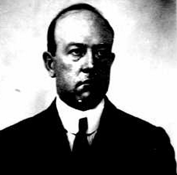 Photograph of Joseph R. Swan